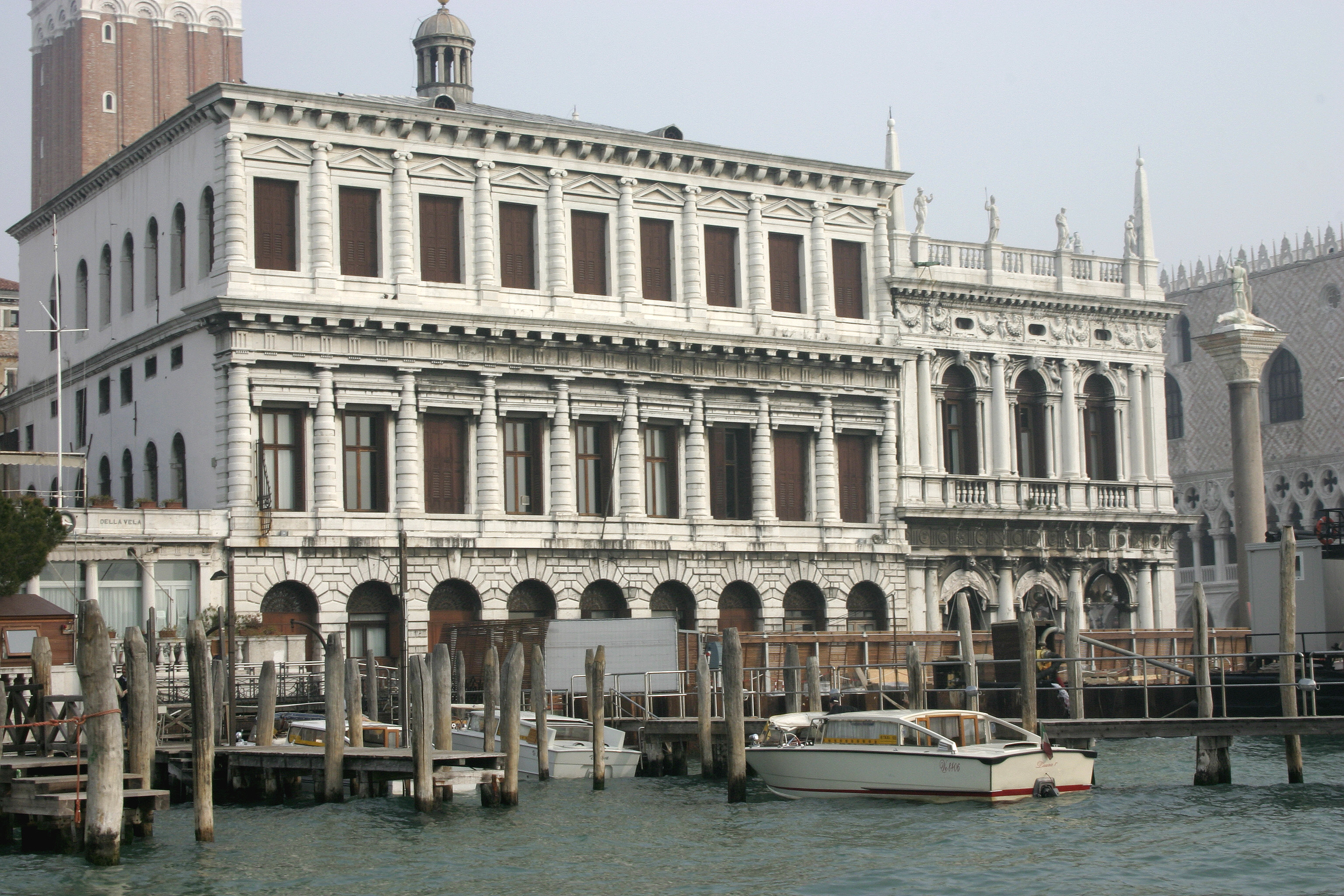 Venice – Zecca (Mint) and Biblioteca Marciana